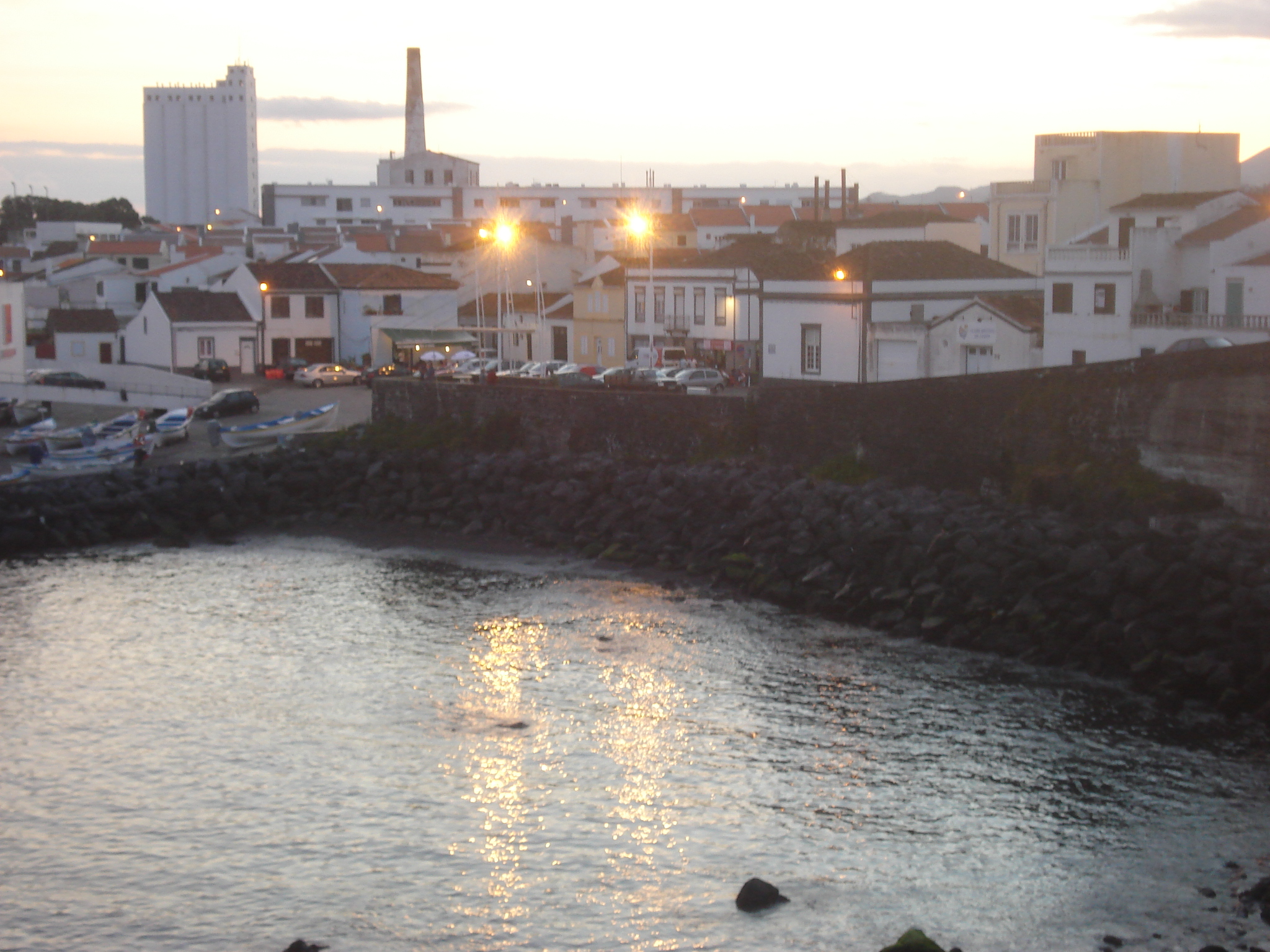 A view of the main fishing port in Lagoa (Port dos Carneiros) at sunset, in the civil parish of Nossa Senhora do Rosário, municipality of Lagoa (Azores), Portugal